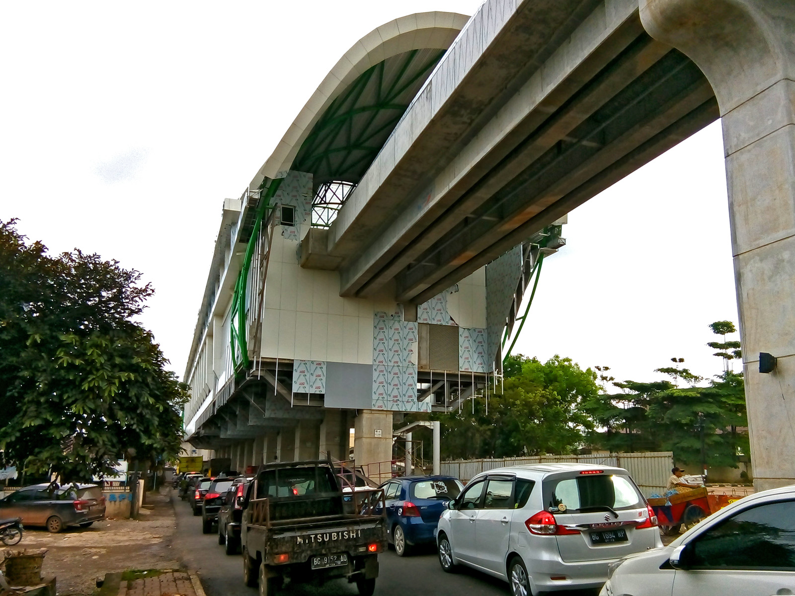 Asrama Haji LRT station in Palembang under construction